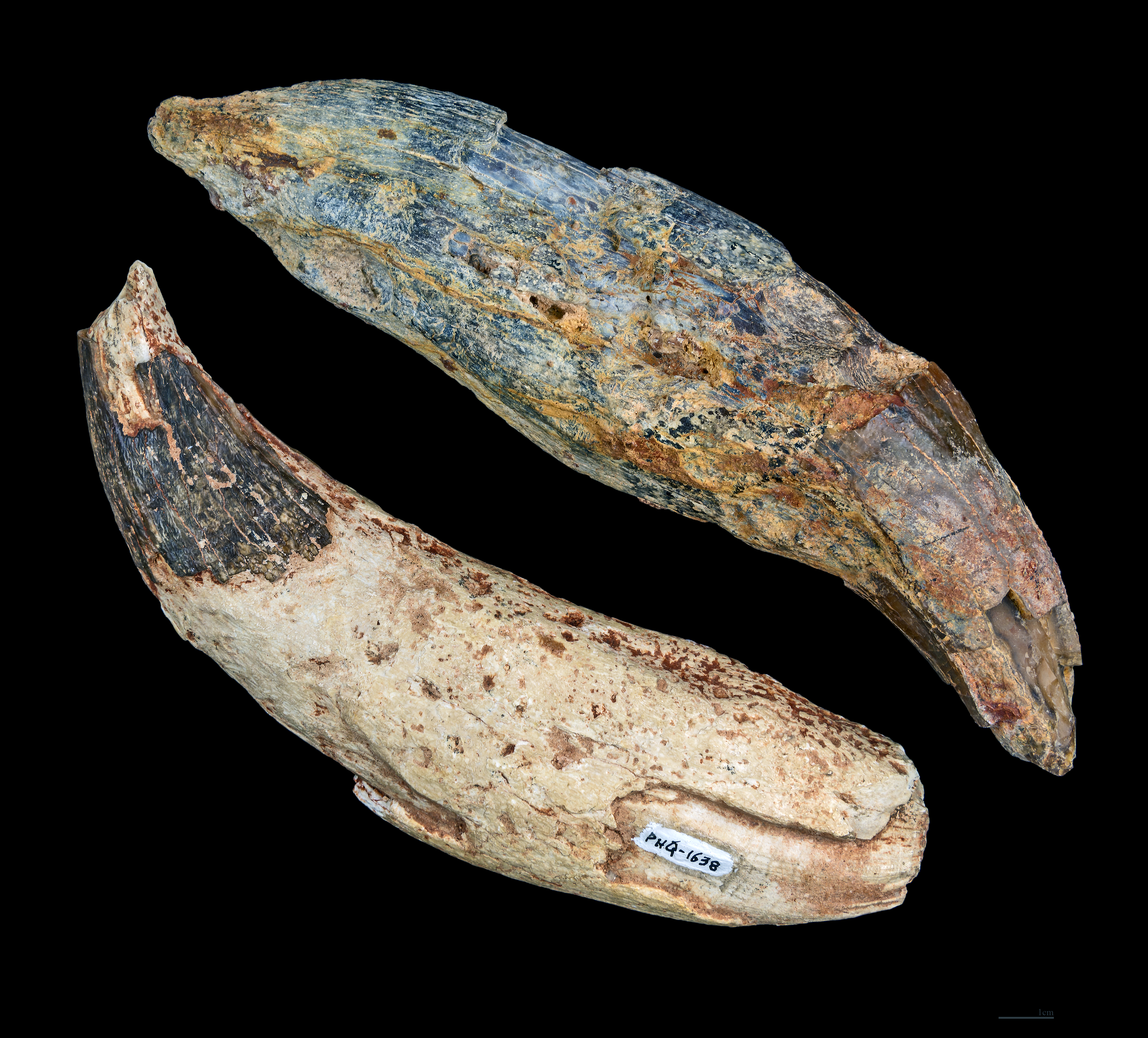 Two mandibular canines of Entelodon magnus Aymard 1846 – Found by Pagès 1873 Stage : Oligocene (33.9 à 23.03 million years Before the Current Era) Locality : Saint-Antonin-Noble-Val, Tarn-et-Garonne, France Size : 19x6x4,5 and 18x6x4cm Former collection of Henri Filhol